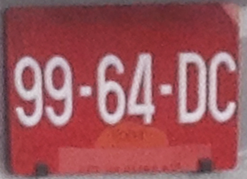 Diplomatic registration plate to a Yemense diplomat from Toyota Wish